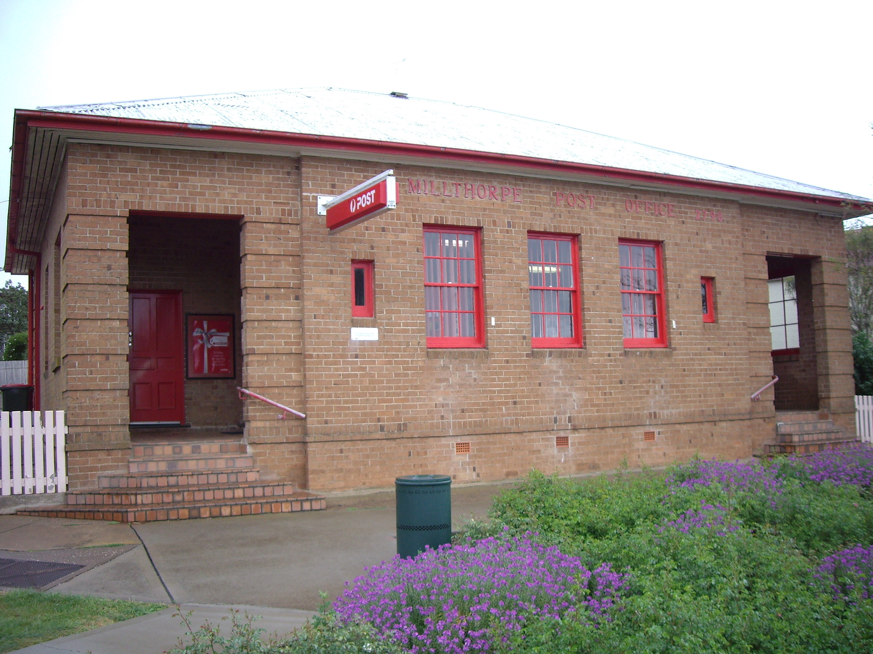 Post Office in Millthorpe New South Wales